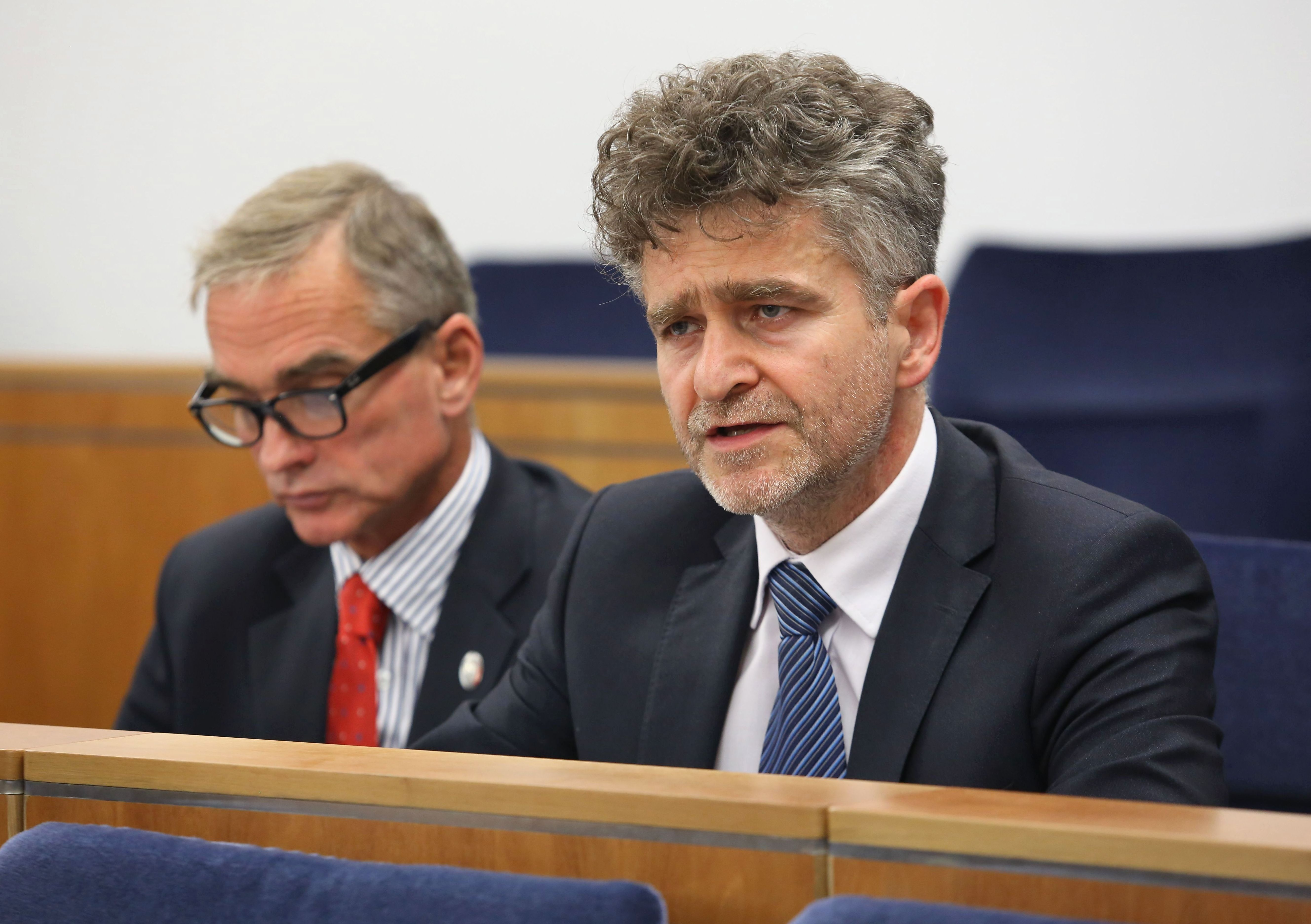 Senator Krzysztof Słoń during 63rd sitting of the Polish Senate